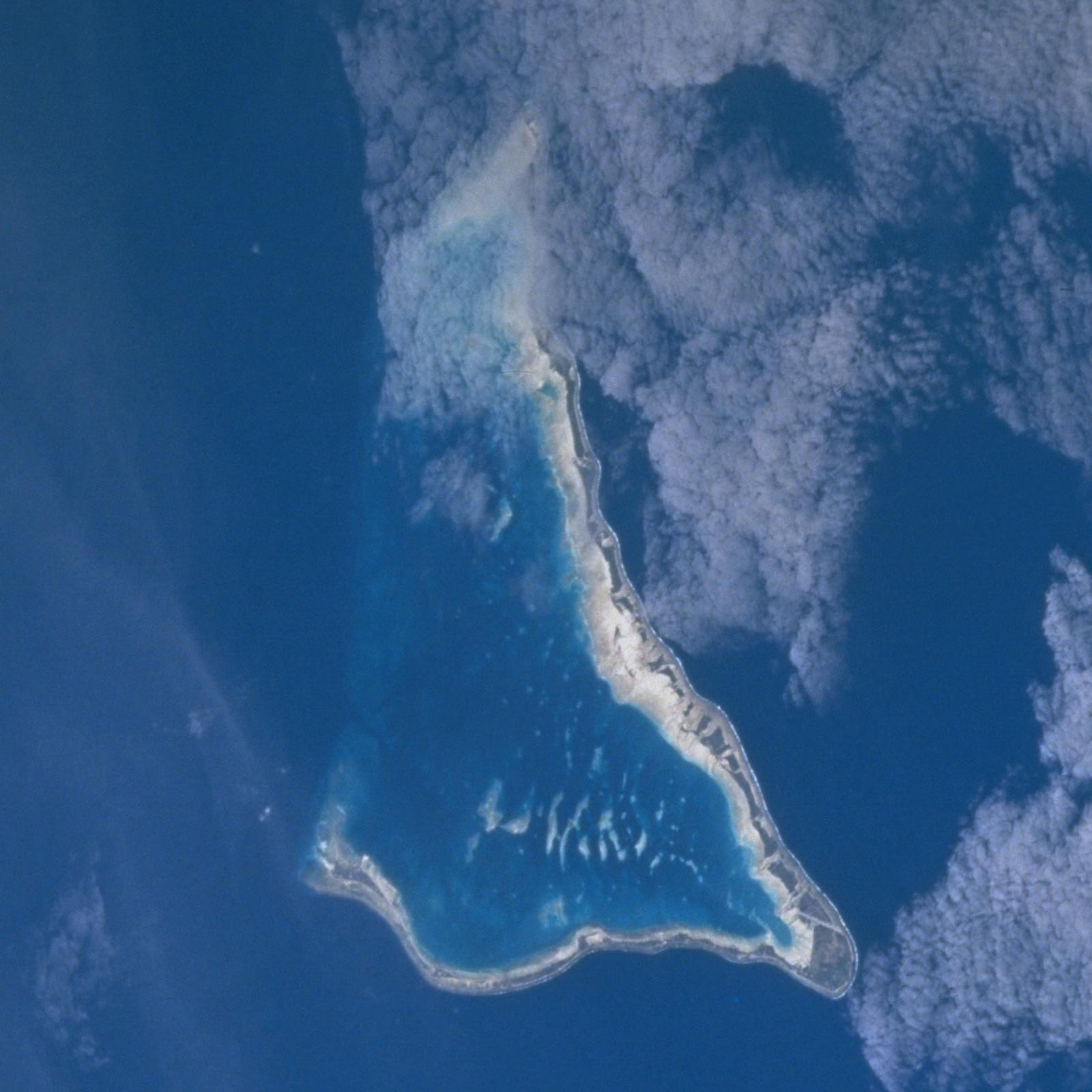 Astronaut photo of Tarawa (upper island) and Maiana, two of the Gilbert Islands, Republic of Kiribati.